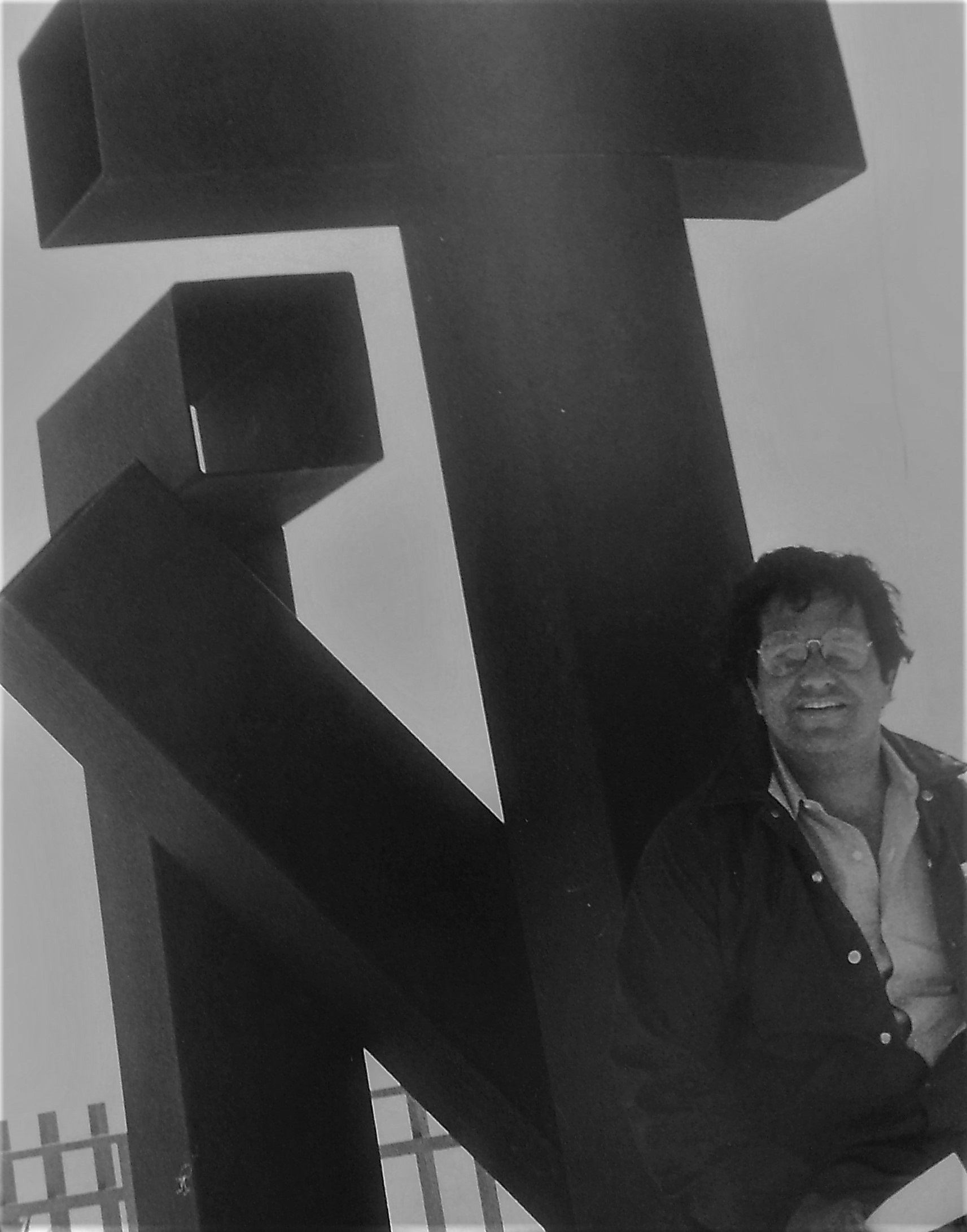 Image of Mr M Margulies taken on the Sculpture Garden Deck of Grove Isle in Miami/ Work of Tony Rosenthal: Large T-Square, 1978 Painted Structural Steel, 7 x 4.3 x 4.16 feet, located at Grove Isle, Miami, Florida